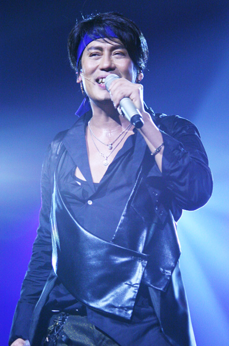 Bird Thongchai in Concert.